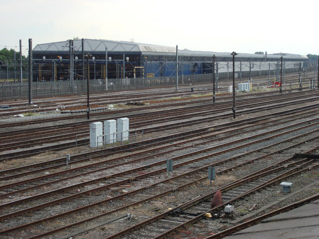 North Pole Maintenance Depot This building is part of Eurostar's North Pole Maintenance Depot, The building can house a full Eurostar train which is a quarter of a mile long. The depot will become redundant in 2007 when the London terminus of Eurostar services moves to St Pancras railway station and maintenance is moved to a new depot at Temple Mills, near Stratford International. Just in front of the building is the Great Western Main Line, in the foreground are sidings leading to Old Oak Common Railway Maintenance Depot.